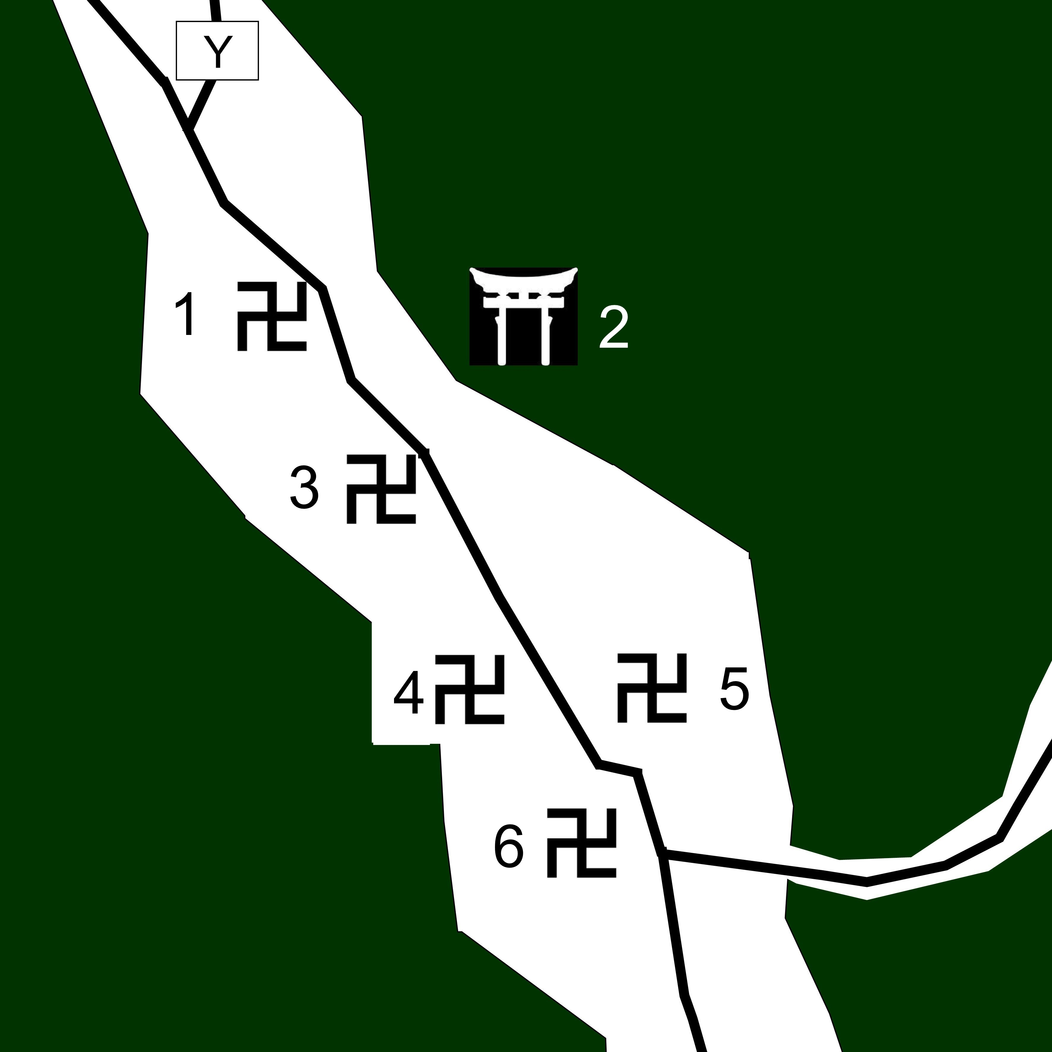 Yoshino mountains